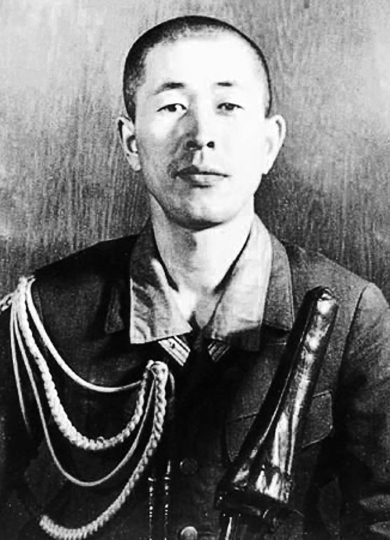 Photo of Major Kenji Hatanaka (1923–45), chief conspirator for a coup d’état to prevent the surrender of Japan at the end of World War II